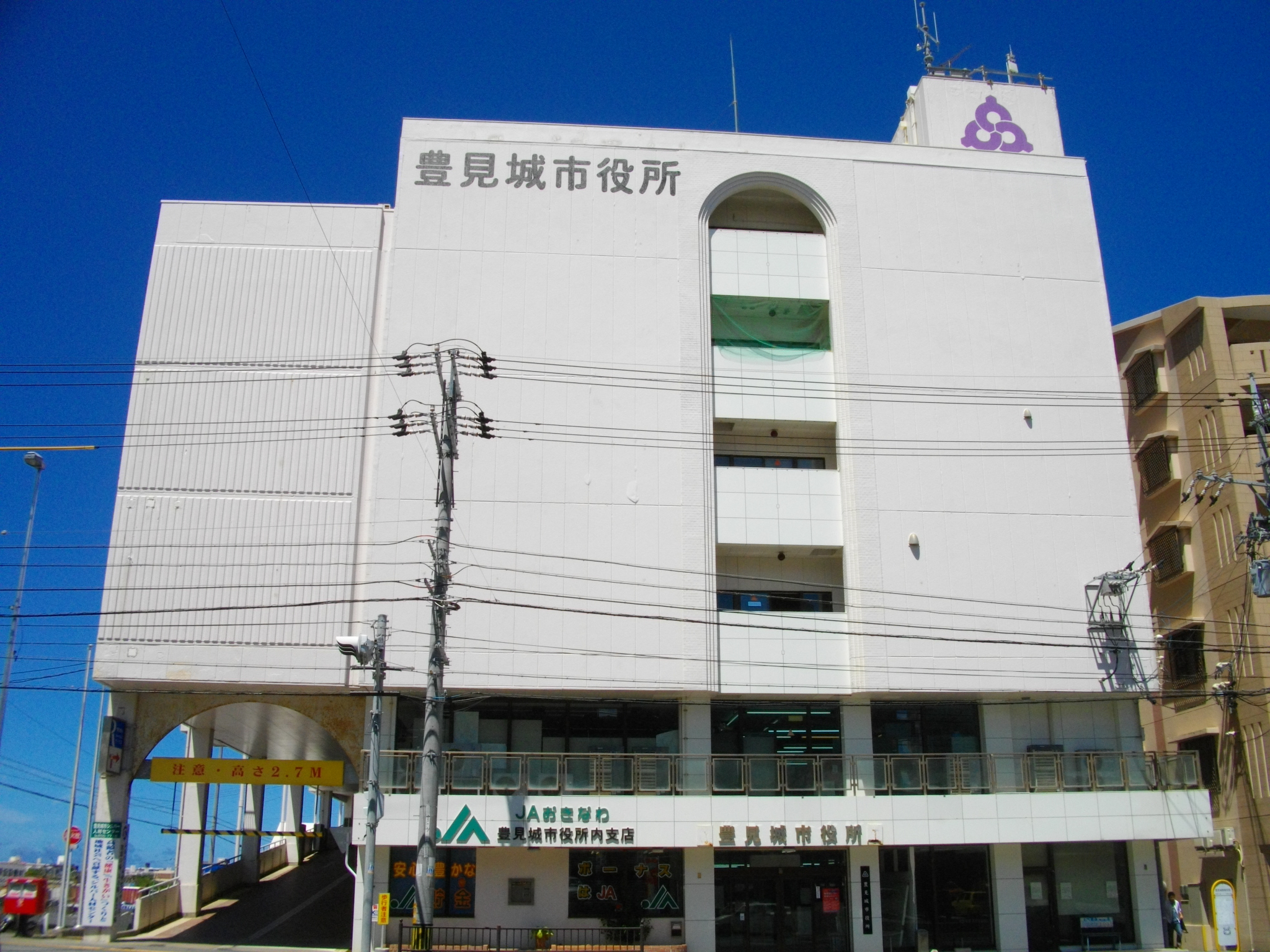 Former Tomigusuku City Hall